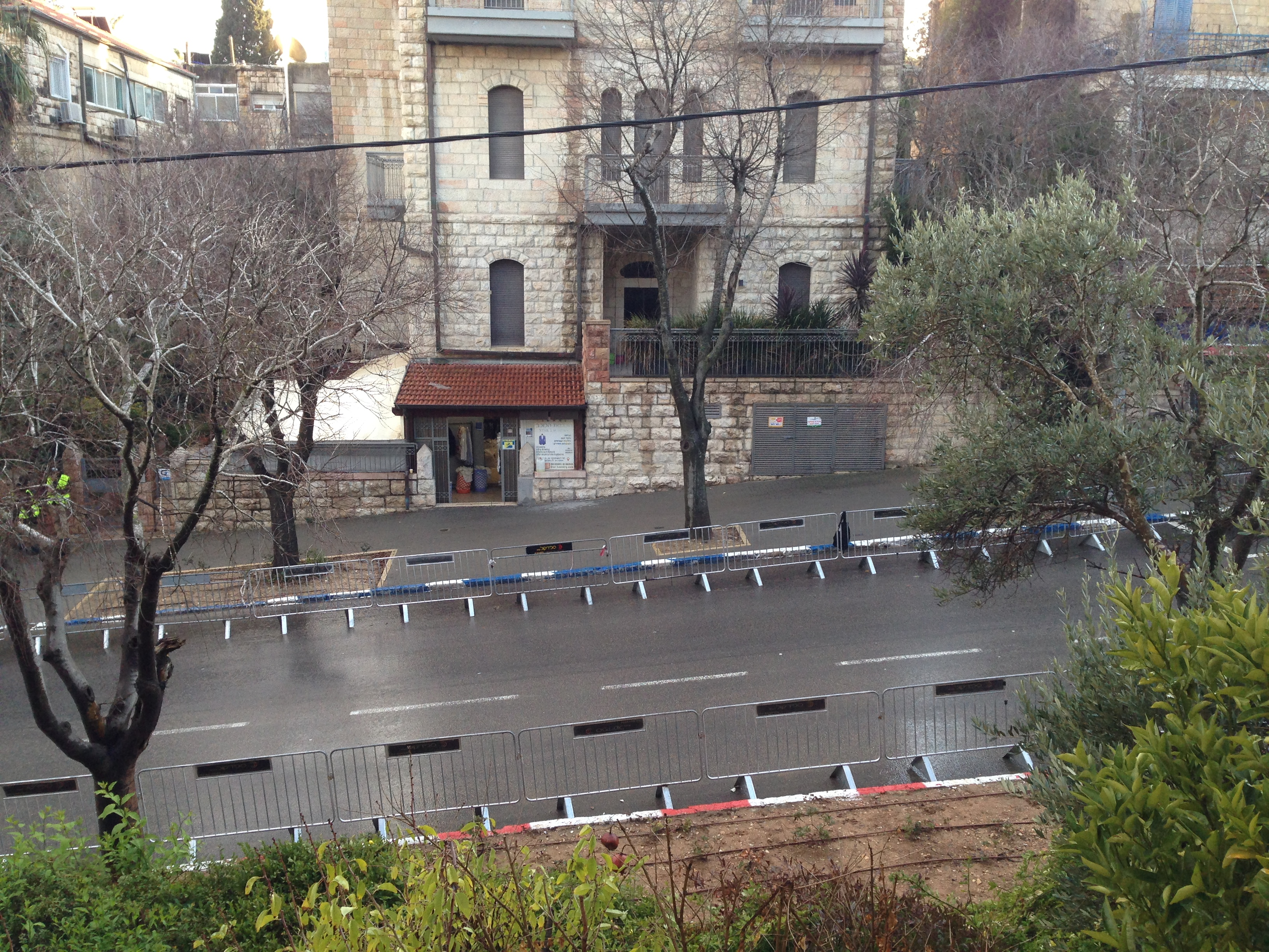 No parking on the street in Jerusalem due to Fifth World Holocaust Forum events in 22–24 January 2020.